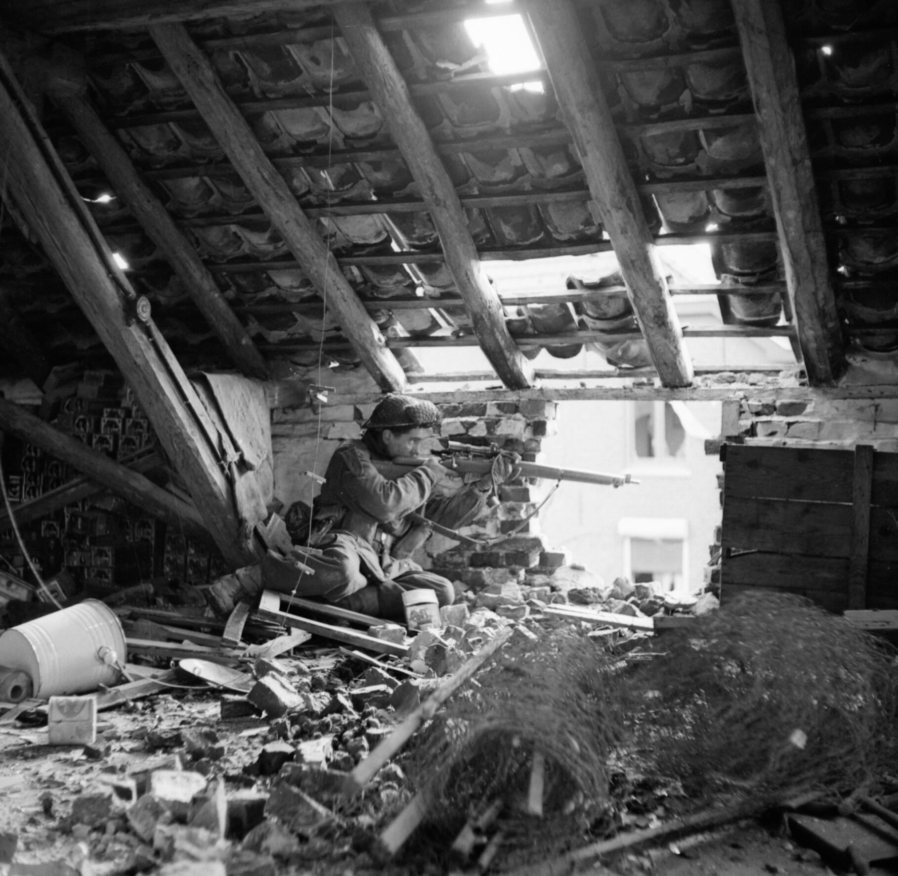 A sniper from "C" Company, 5th Battalion, The Black Watch, 51st (Highland) Division, in position in the loft space of a ruined building in Gennep, Holland, 14 February 1945. A sniper from "C" Company, 5th Battalion, The Black Watch , 51st (Highland) Division, in position in the loft space of a ruined building in Gennep, Holland, 14 February 1945.